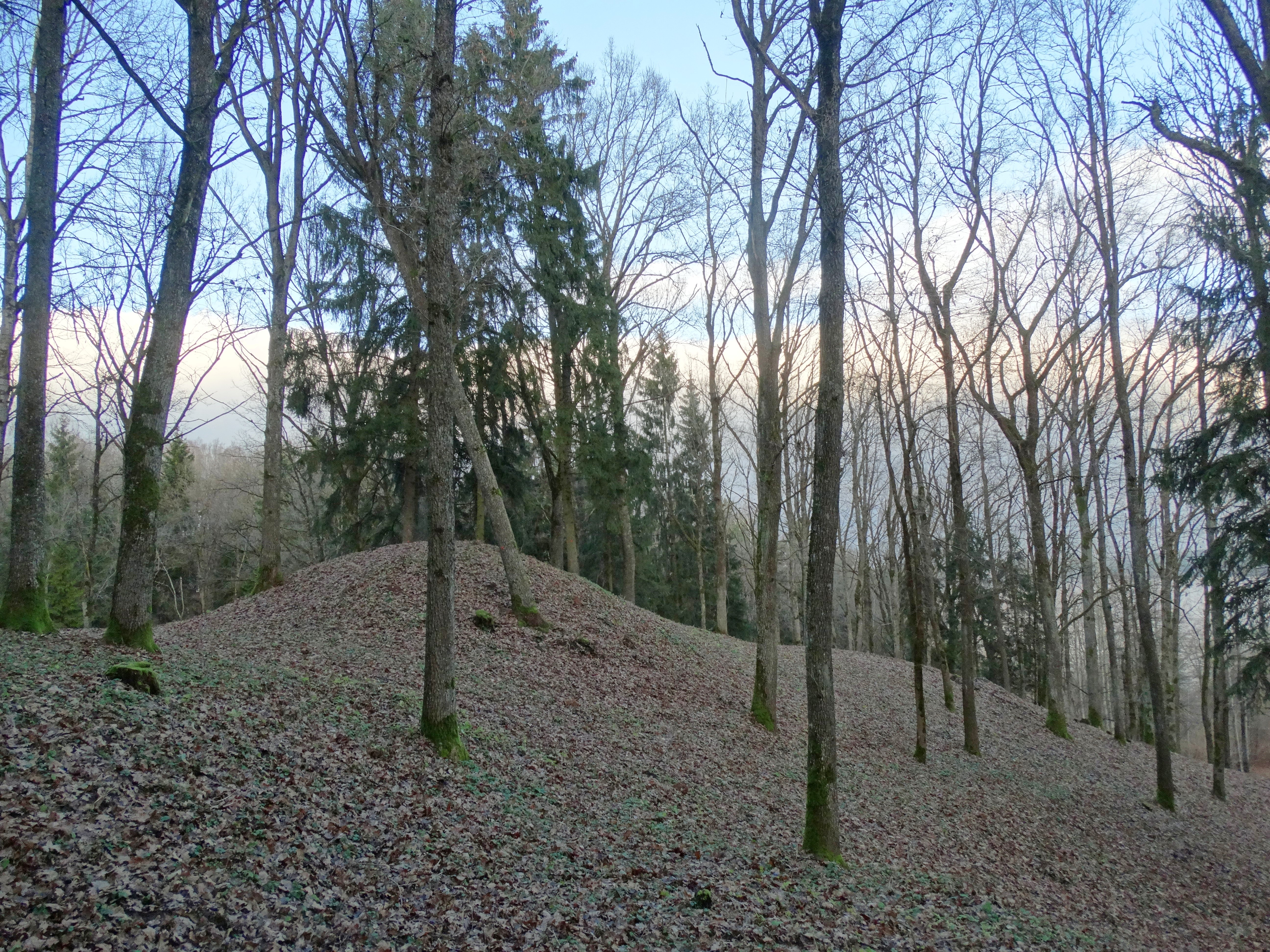 Samylai, 2nd Hillfort, Kaunas District, Lithuania